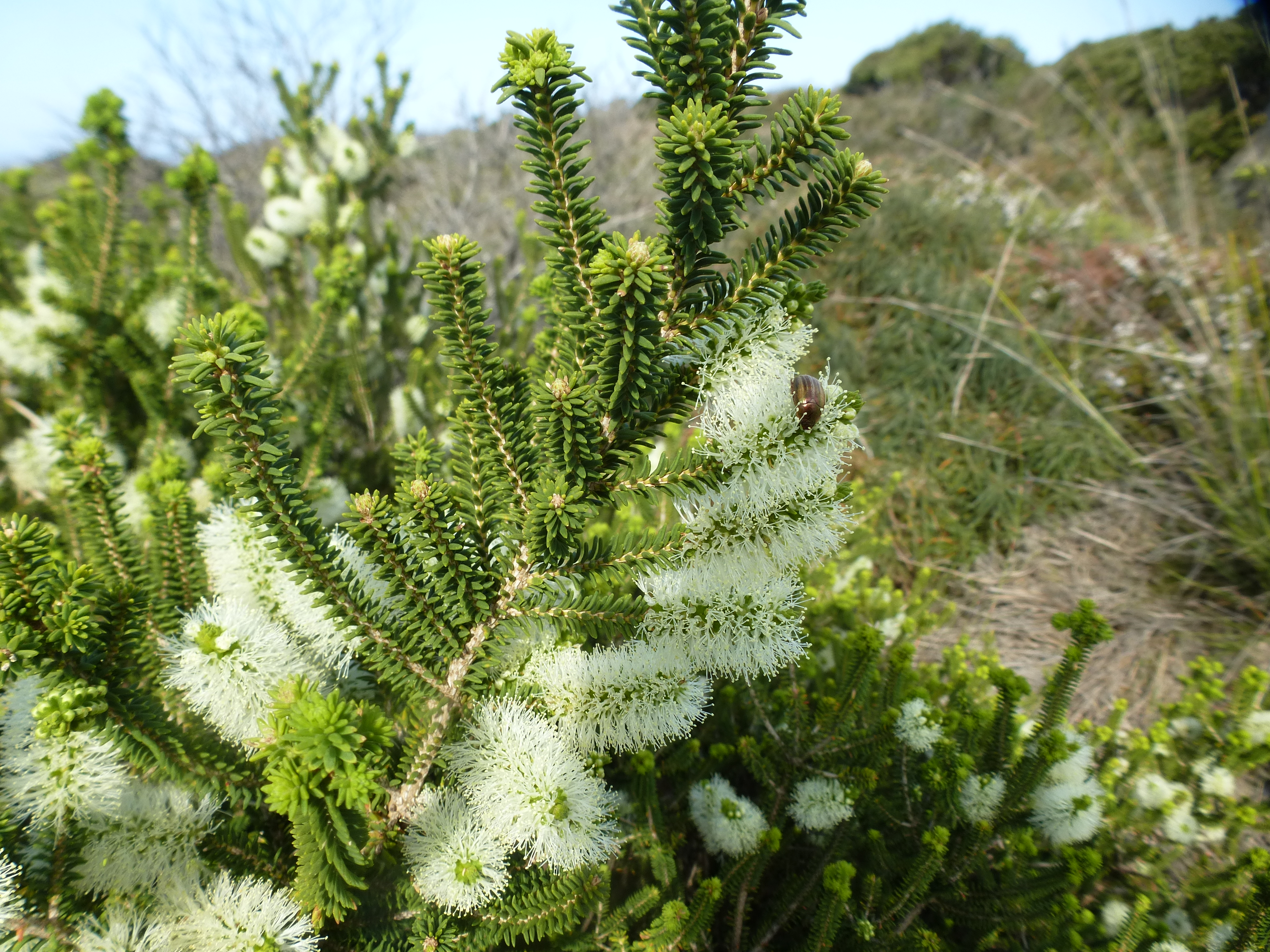 Melaleuca microphylla growing at Bettys Beach near Albany